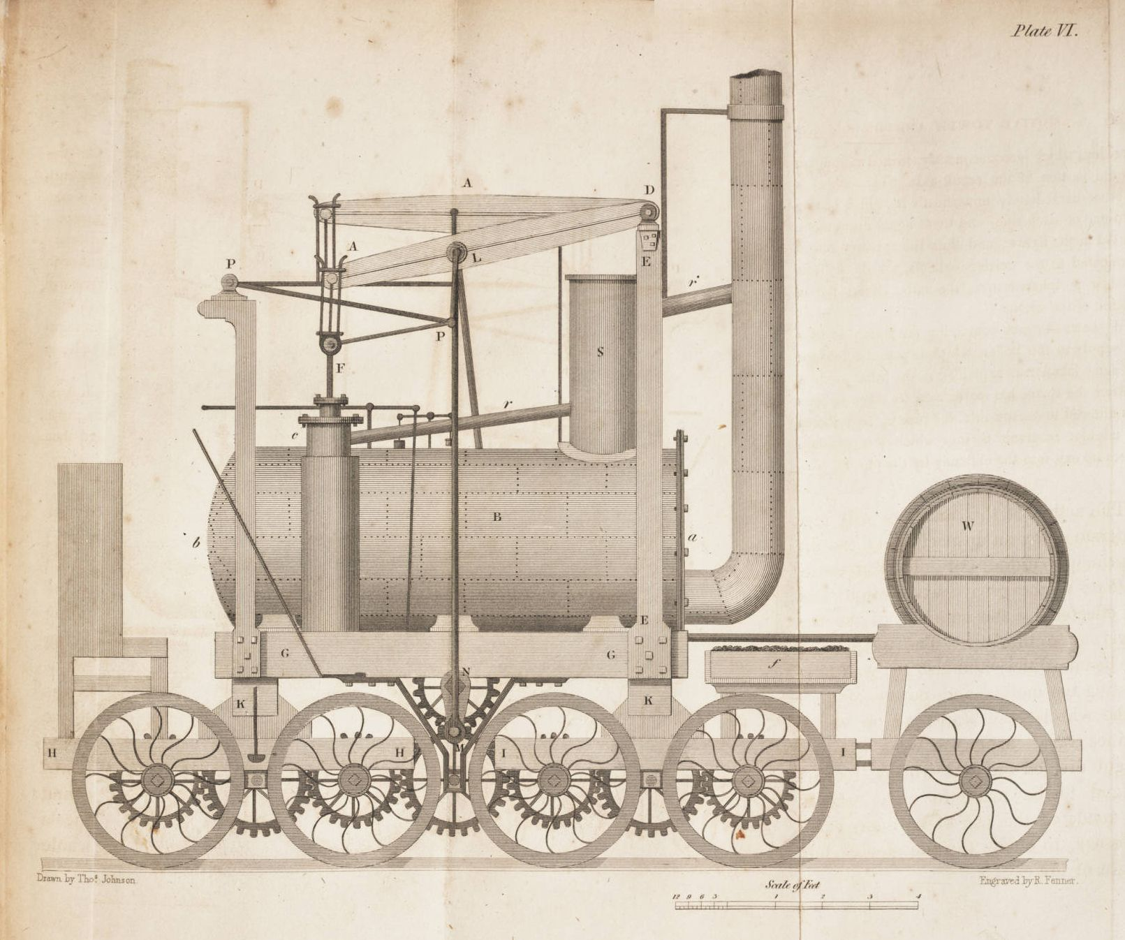 Hedley's 0-8-0 Wylam locomotive, 1813